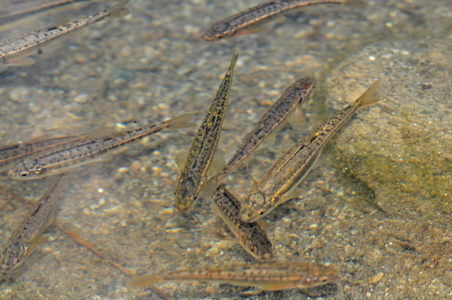 Phoxinus phoxinus photographed in northern Italy. Photo by Carlo Morelli - Forum Natura Mediterraneo